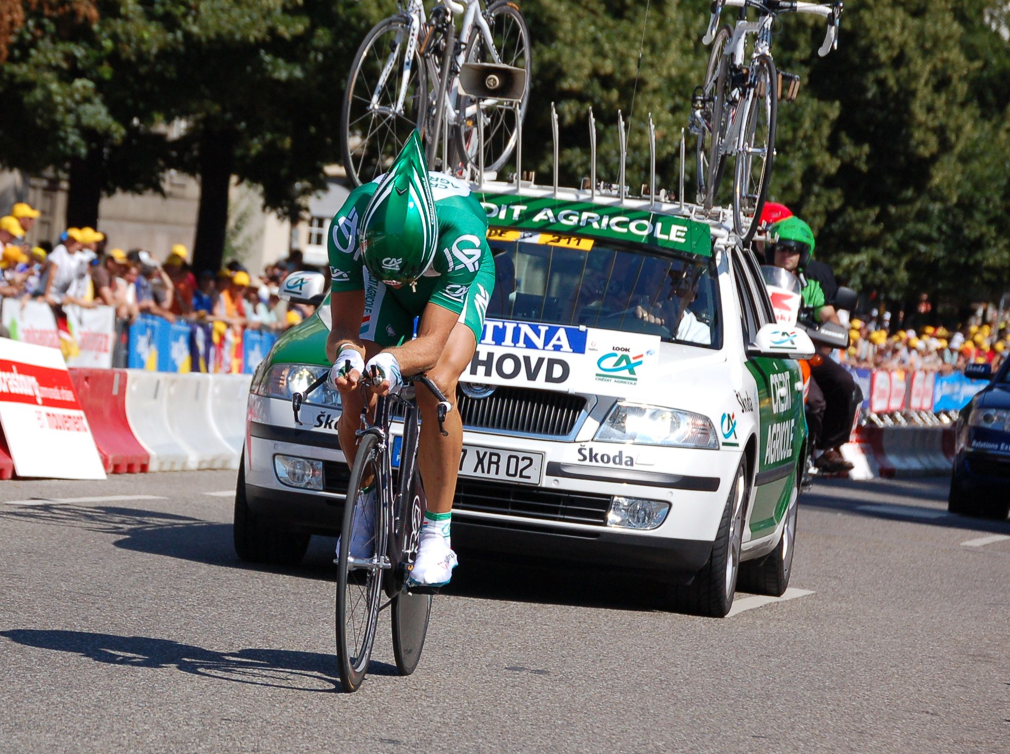 Thor Hushovd, winner of the prologue of the Tour de France 2006